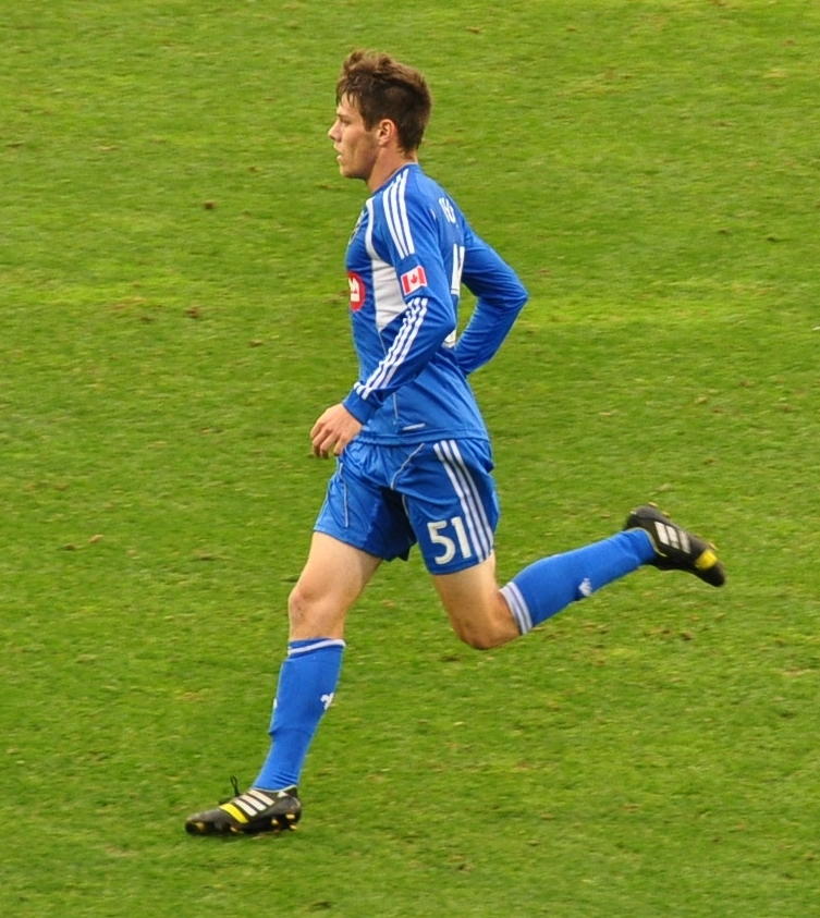 Maxim Tissot in the MLS Reserve League